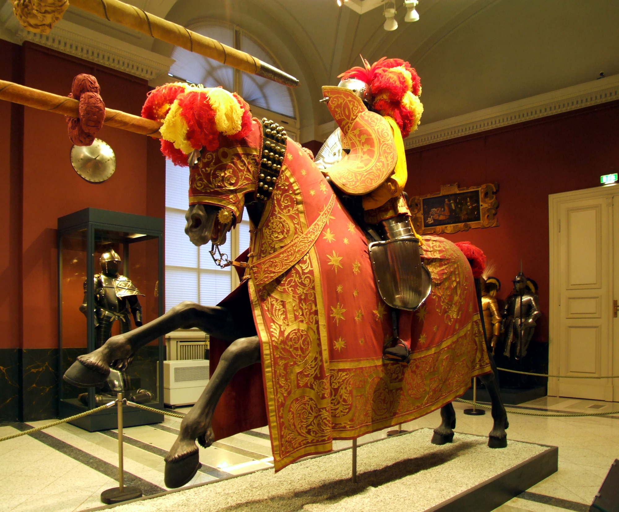 Rüstkammer, Dresden - tournament armor